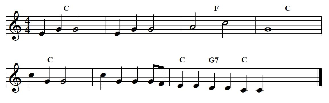 A simple "music sheet" to the Icelandic song about the fingers.